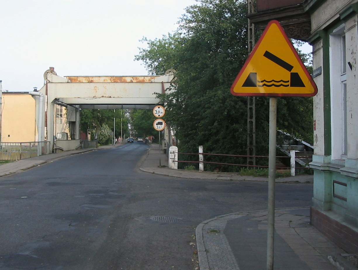 lift bridge in Nowa Sol, Poland